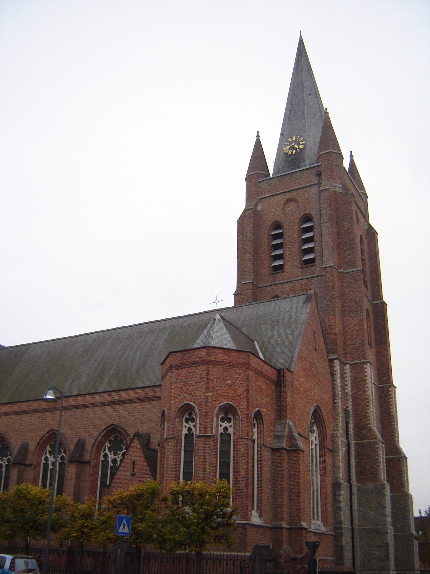 Church of Saint Eligius in Ruddervoorde. Ruddervoorde, Oostkamp, West Flanders, Belgium